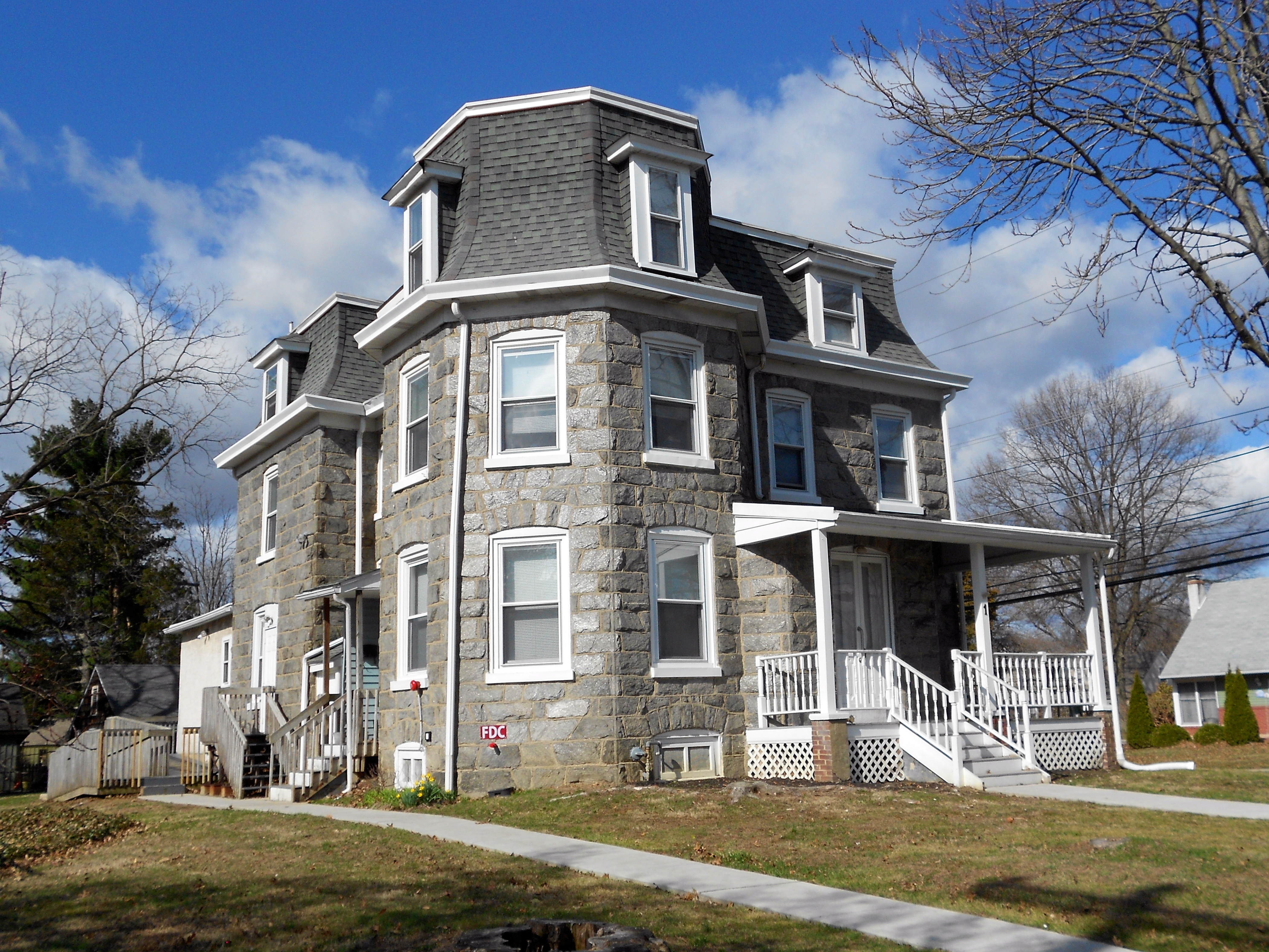 House in Rutledge, Delaware County, Pensylvania